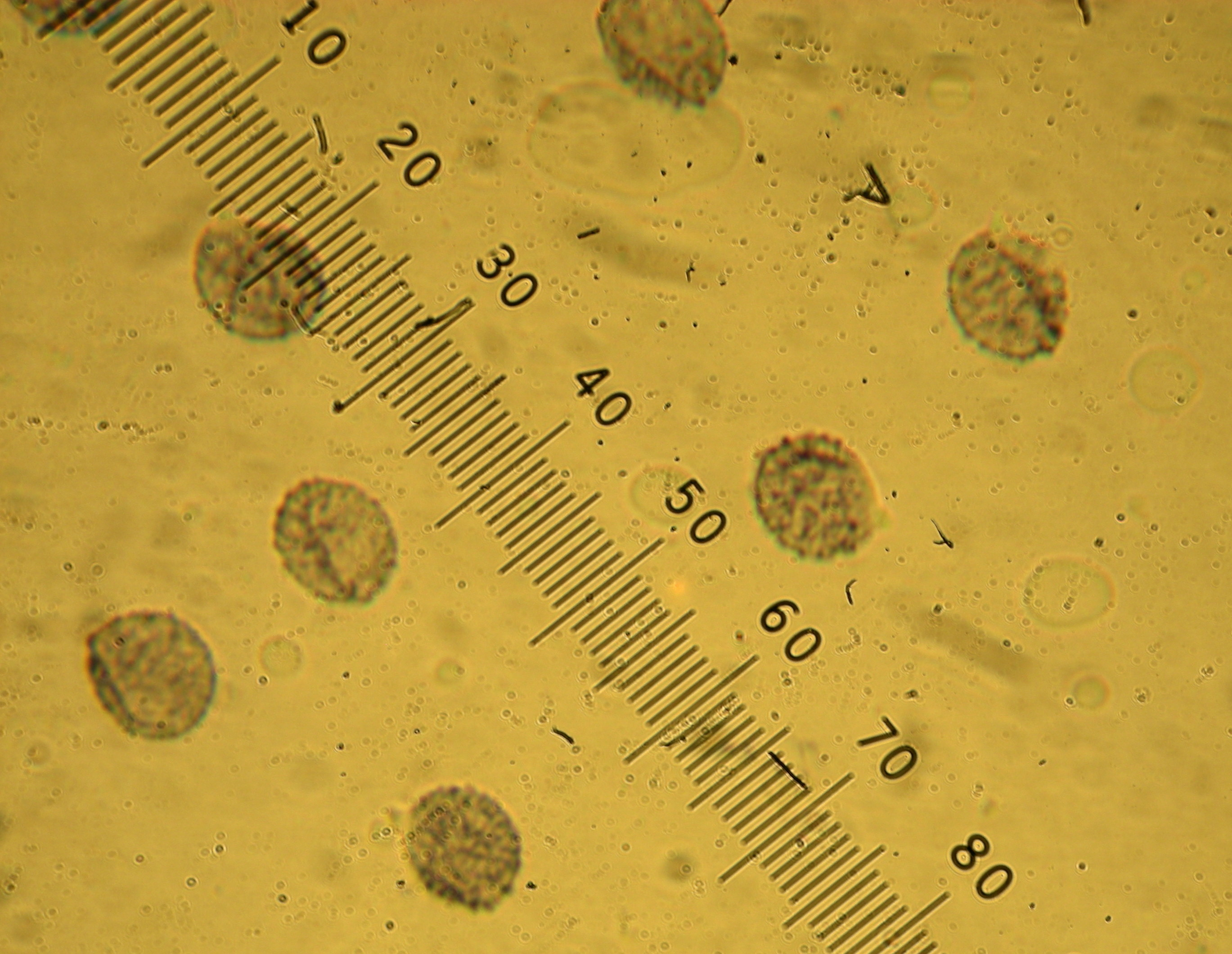 Spores of Russula albonigra